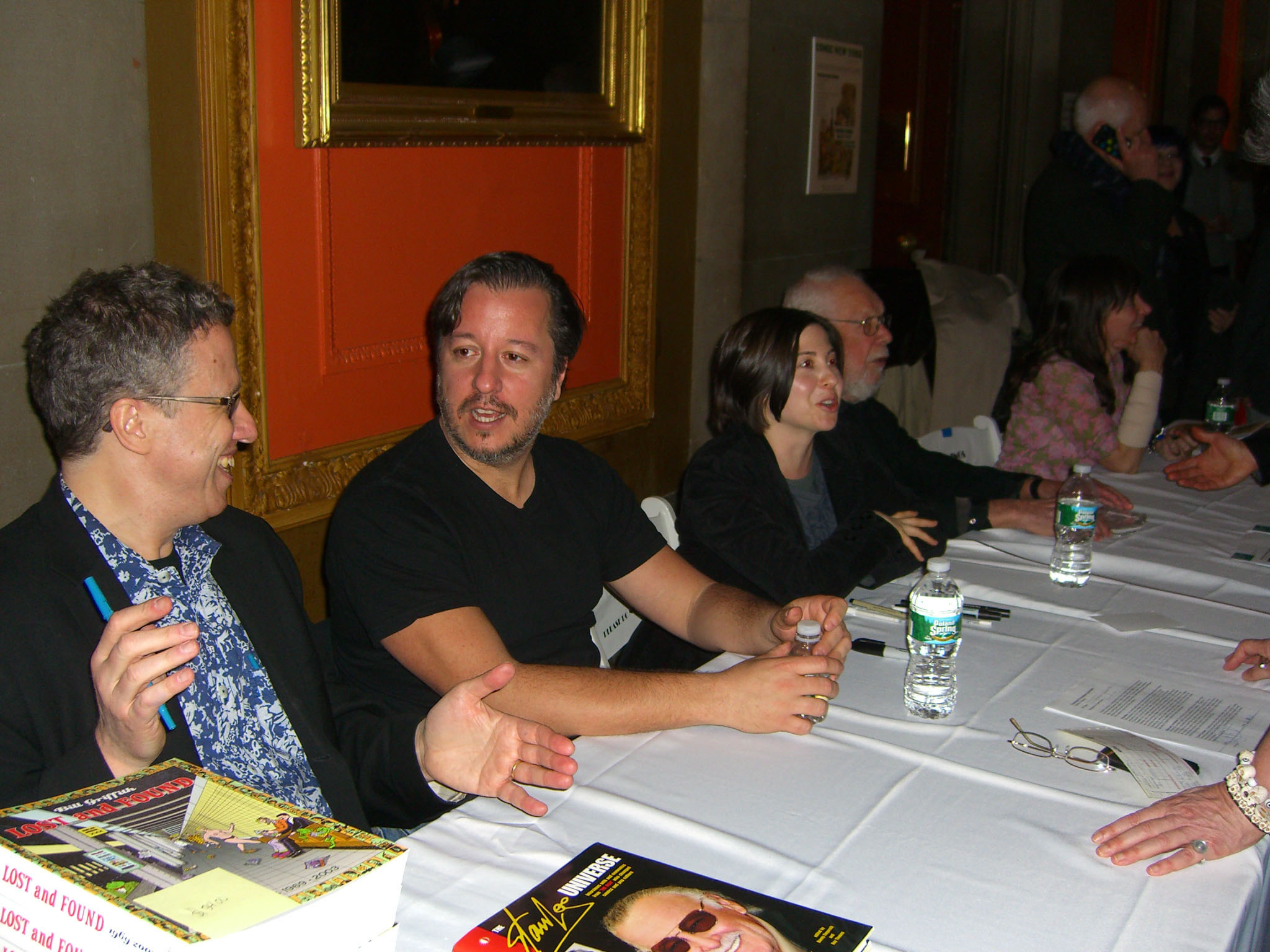 Comics creators signing books on March 24, 2012, the second of the two-day Comic New York symposium, which was held at Columbia University's Low Library. From left to right are creators Danny Fingeroth, Dean Haspiel, Miss Lasko-Gross, Al Jaffee and Tracy White. The man on the phone standing beside Tracy White is seminal X-Men writer Chris Claremont, who in 2011, donated archives of all his major writing projects over the previous 40 years to the Library's graphic novel collection. This photo was created by Luigi Novi. It is not in the public domain, and use of this file outside of the licensing terms is a copyright violation.